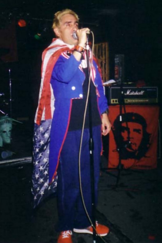 Luis Güereña durante una presentación.